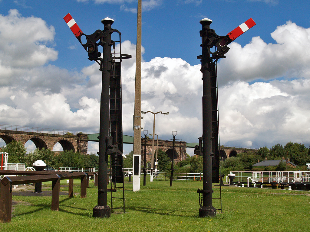 Former railway signals protecting the locks at Hunts Lock on the River Weaver Navigation at Northwich with Northwich Railway Viaduct ("The Arches") behind. Saturday, 2 August 2008. The location is adjacent to The Salt Museum, Northwich. These manually-operated railway semaphore signals are placed in the centre between the paired locks and direct boats and Narrowboats into either the larger, or smaller of the two locks. The "reflected" signals are possible as one of the signals has been reassembled back to front, in a non-standard fashion.